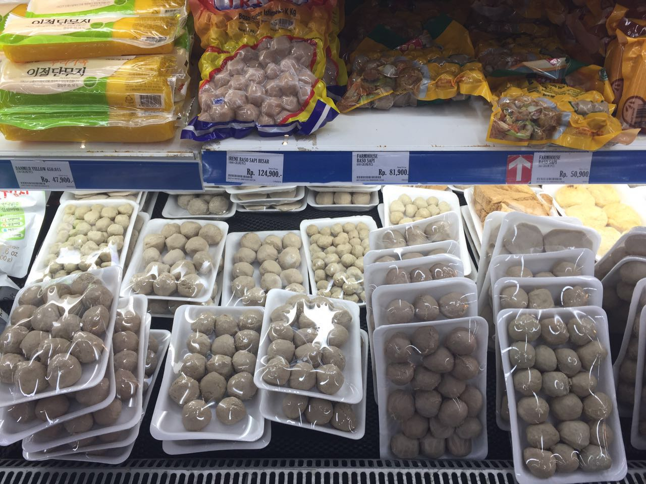 Various bak so in a shop on Jakarta